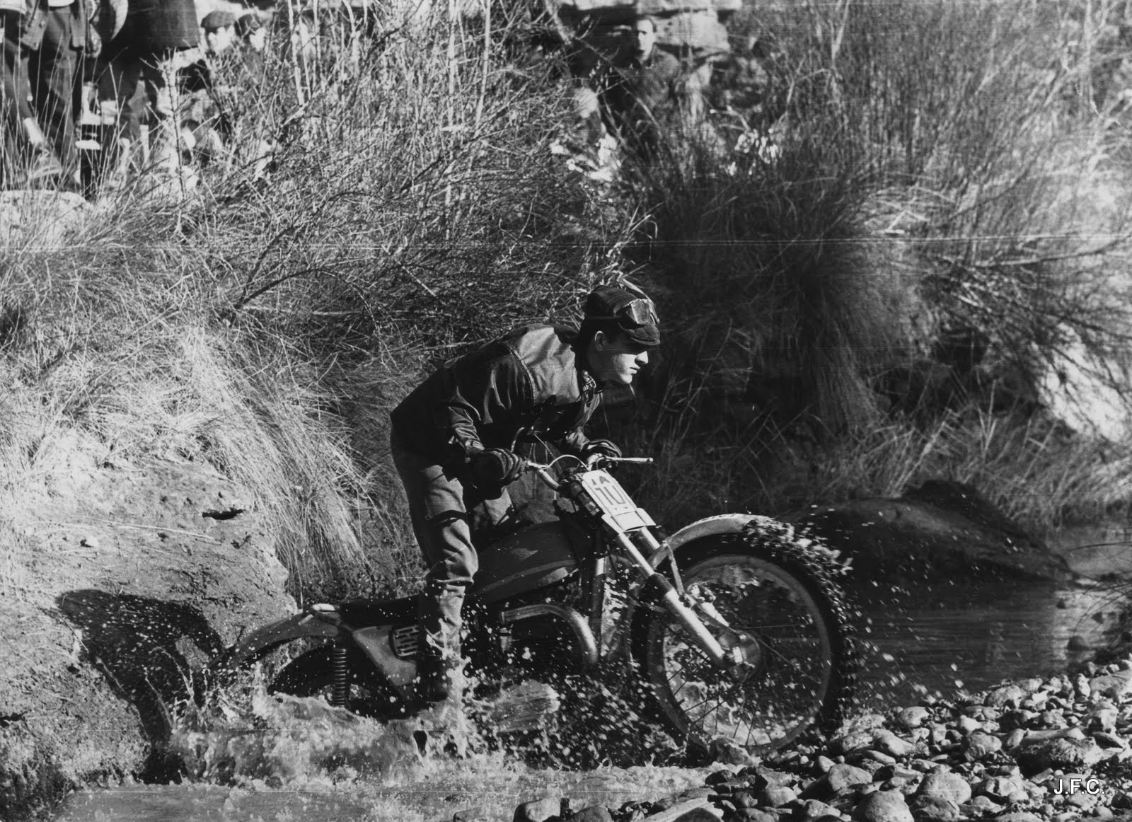 Joan Font on his Bultaco Sherpa T at the 1968 Trial de Manresa (Catalonia)